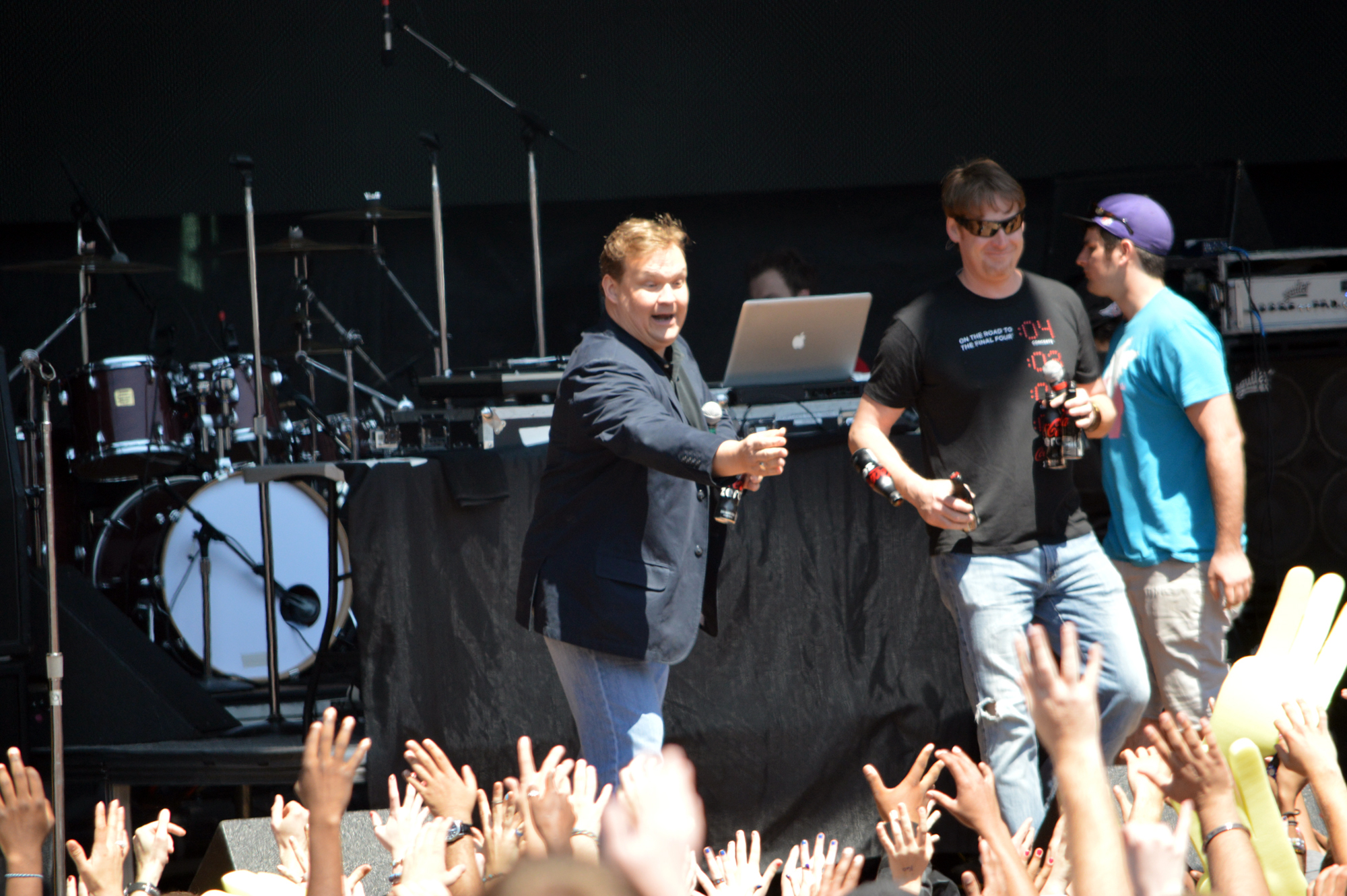 Andy Richter at the 2013 Final Four in Atlanta Georgia